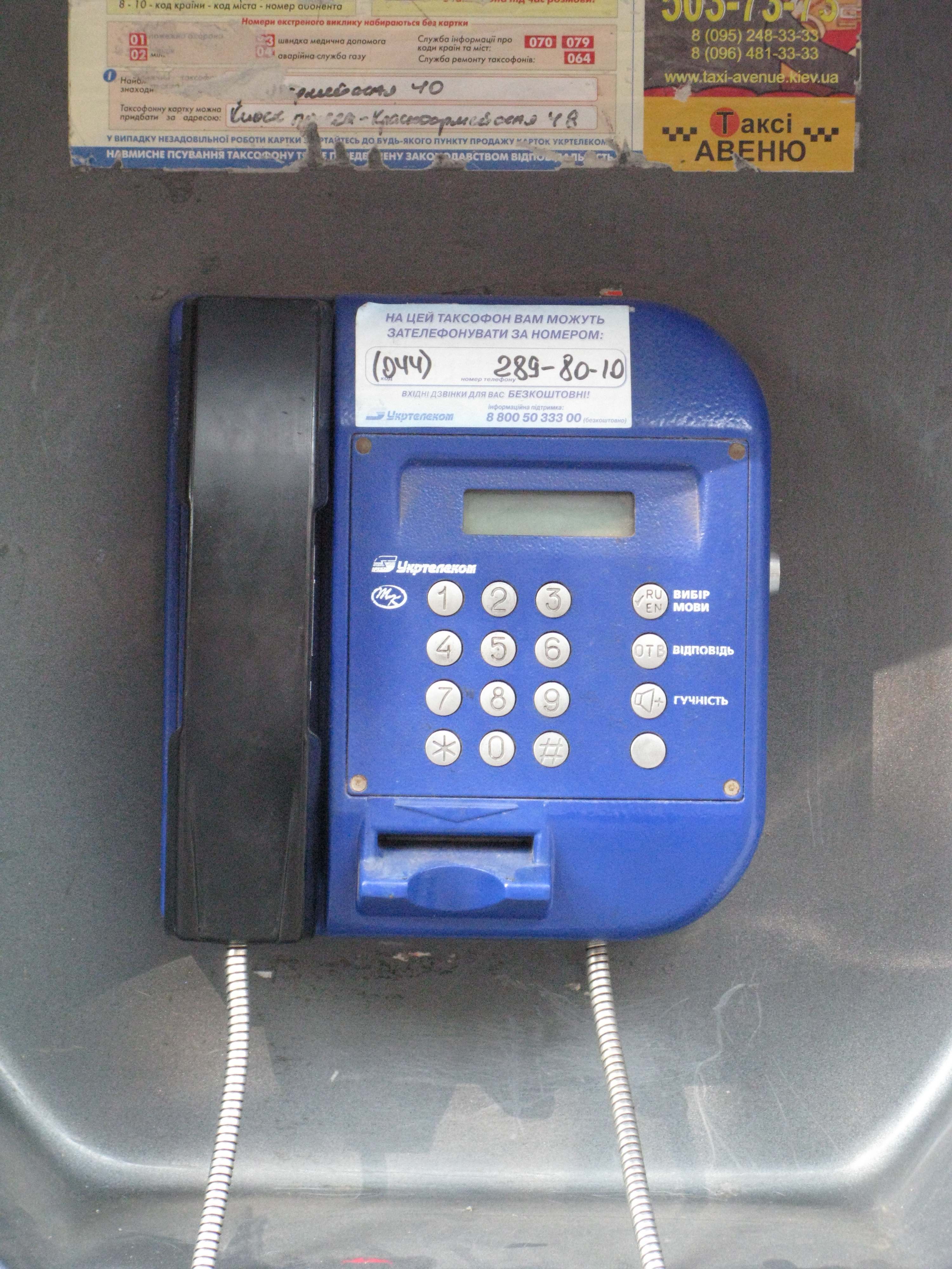 Payphone in Kiev